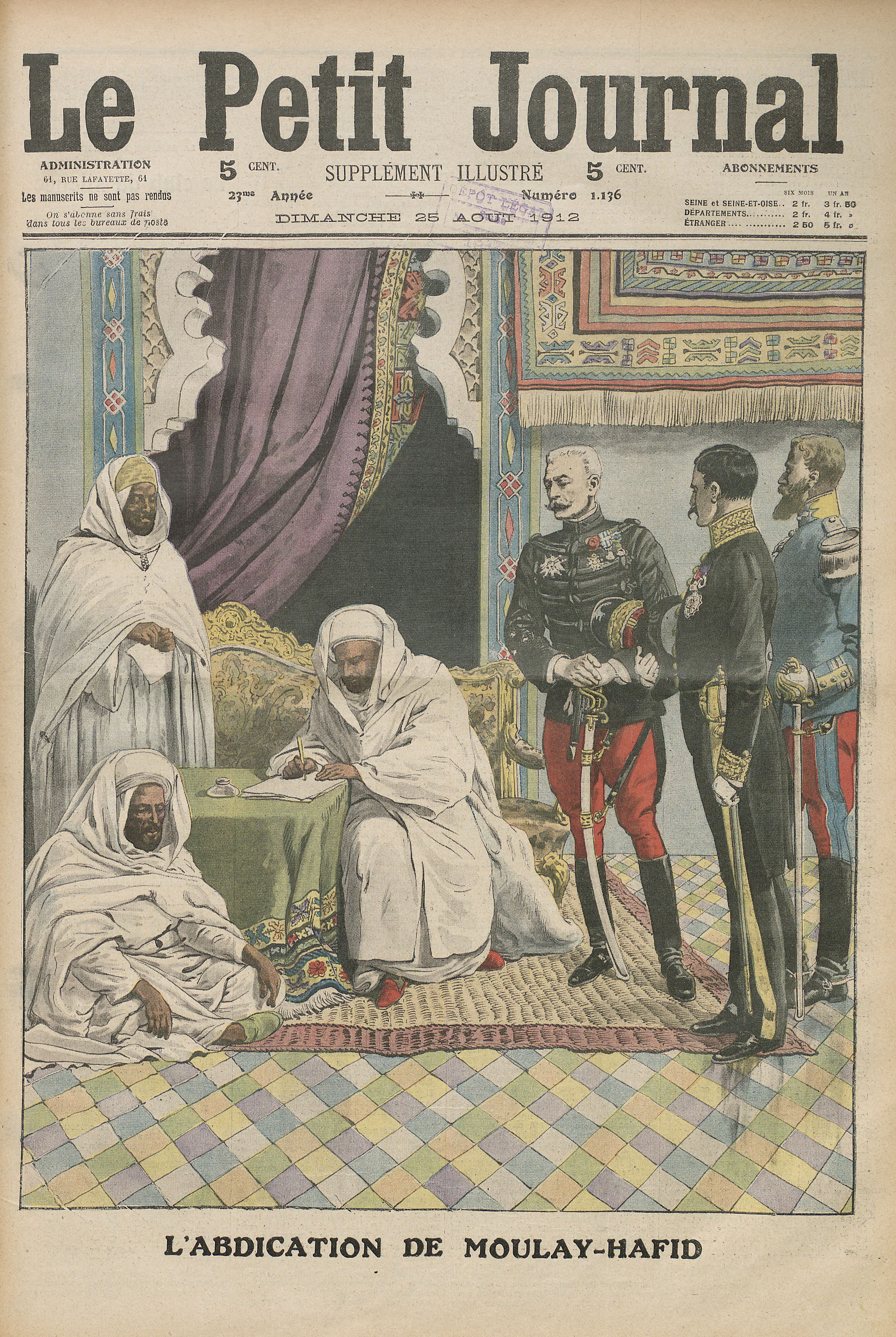 "L'abdication de Moulay-Hafid" ("The abdication of Abd al-Hafid, Sultan of Morocco"), illustration published in Le Petit Journal, Paris, No. 1136, 25 August 1912